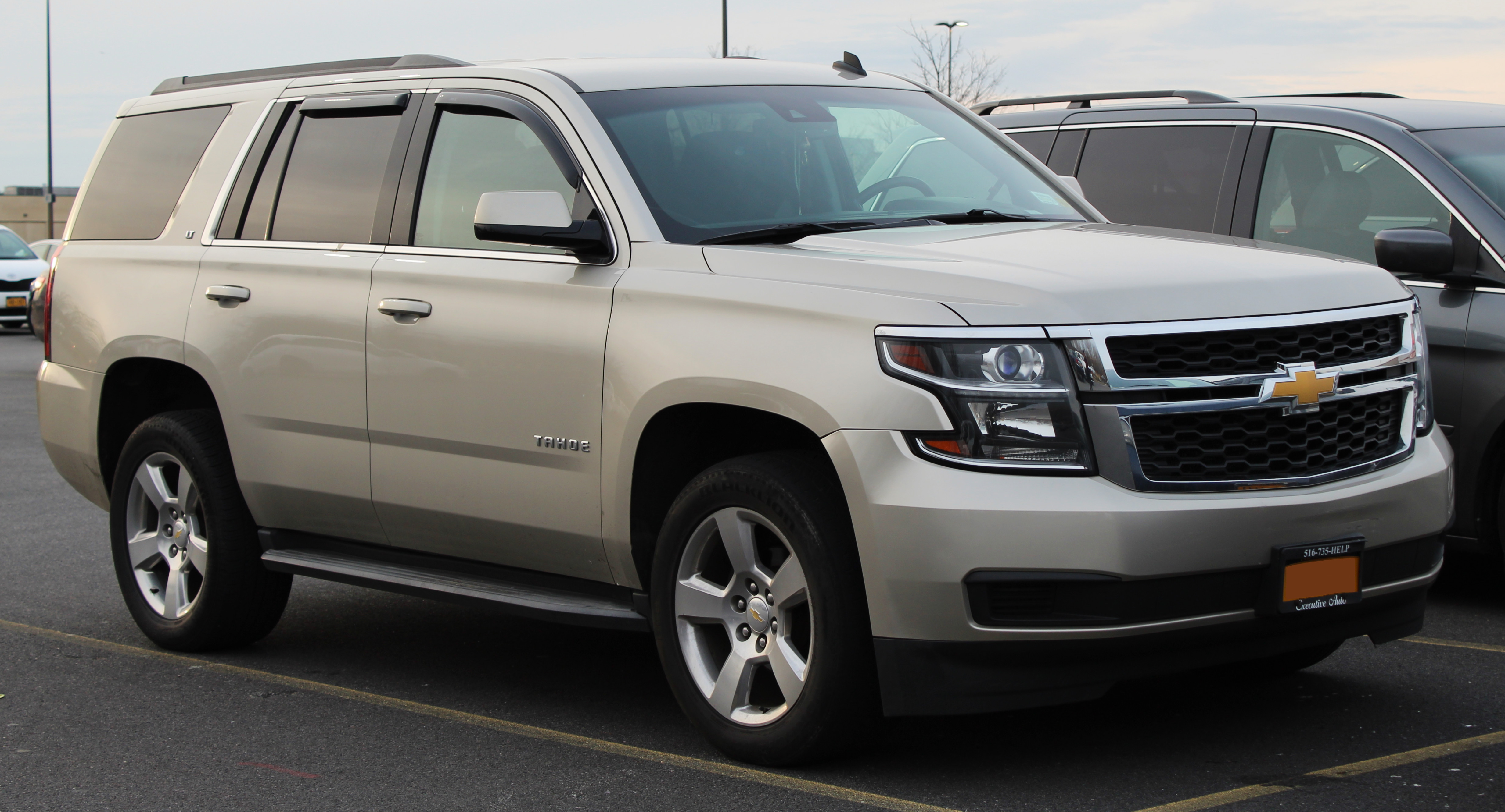 A 2015 Chevrolet Tahoe LT 5.3L photographed in College Point, Queens, New York, USA